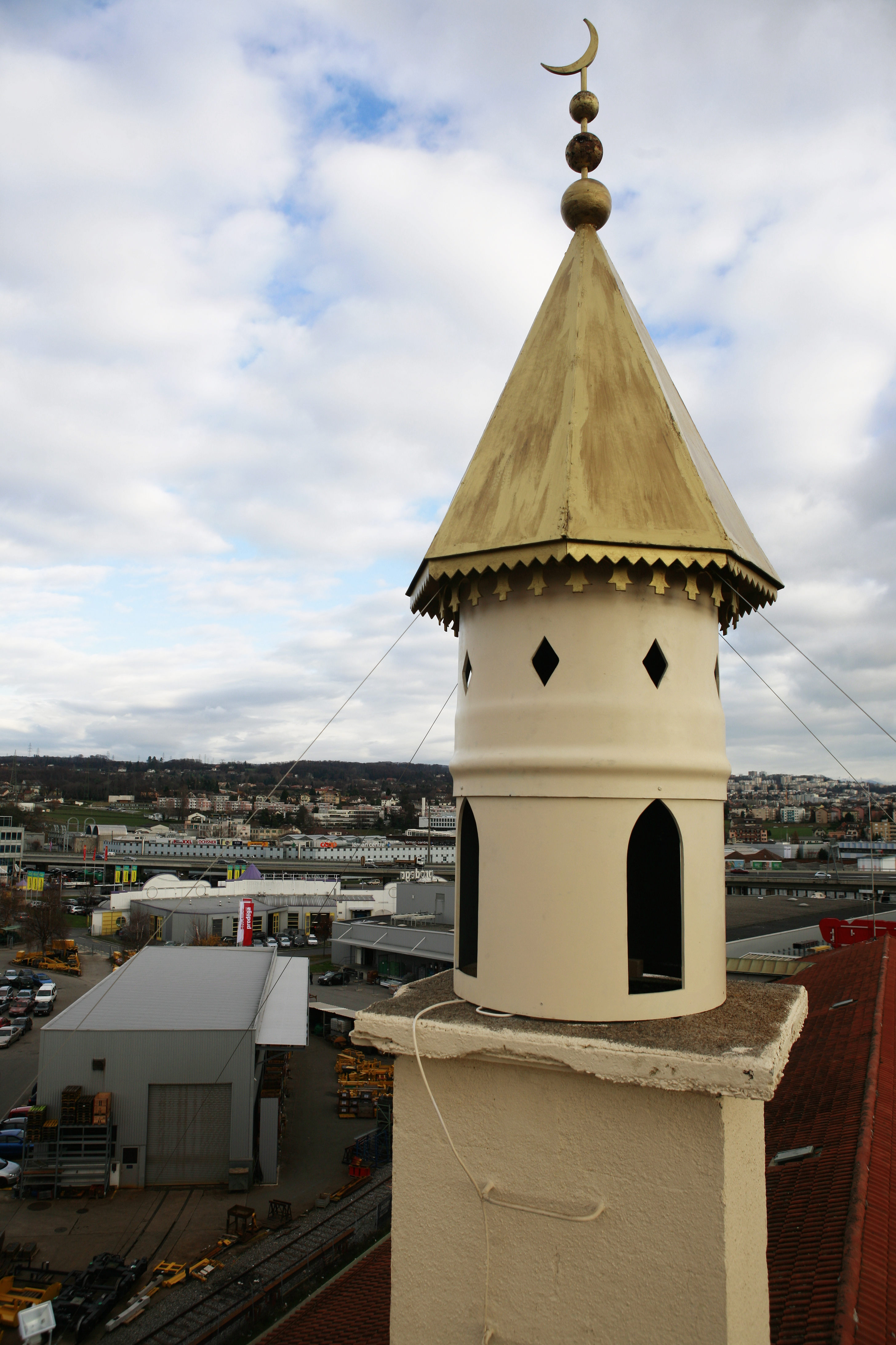 Bussigny mock minaret, erected on a chemney on the roof of Pomp It Up shoe store in protest against the referendum of November 2009